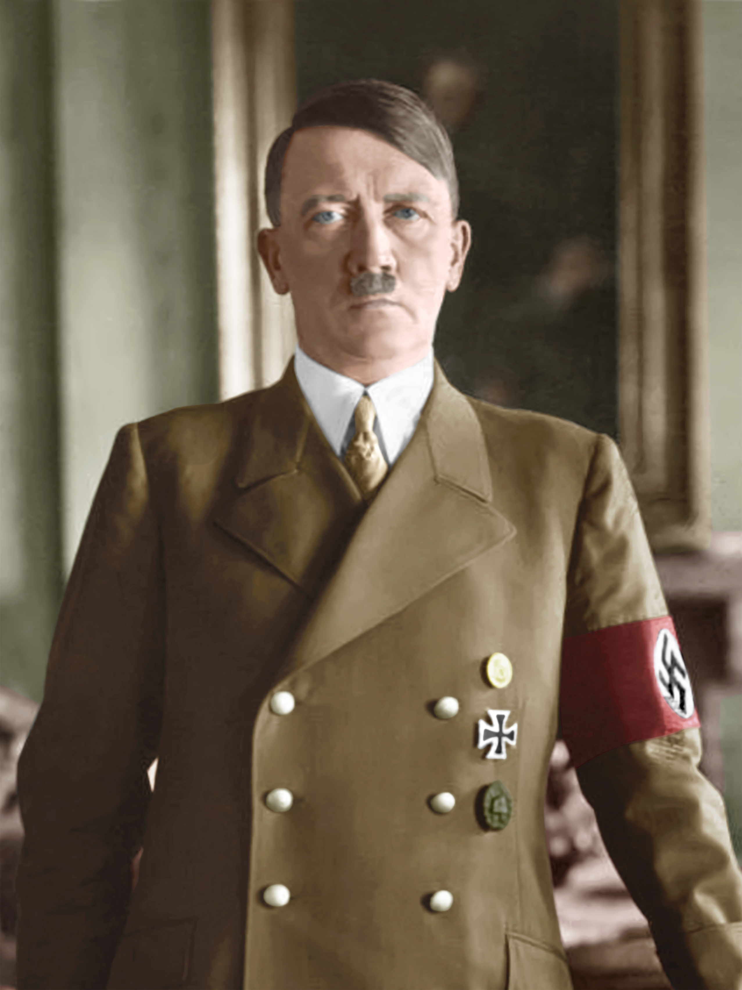 Portrait of Adolf Hitler.